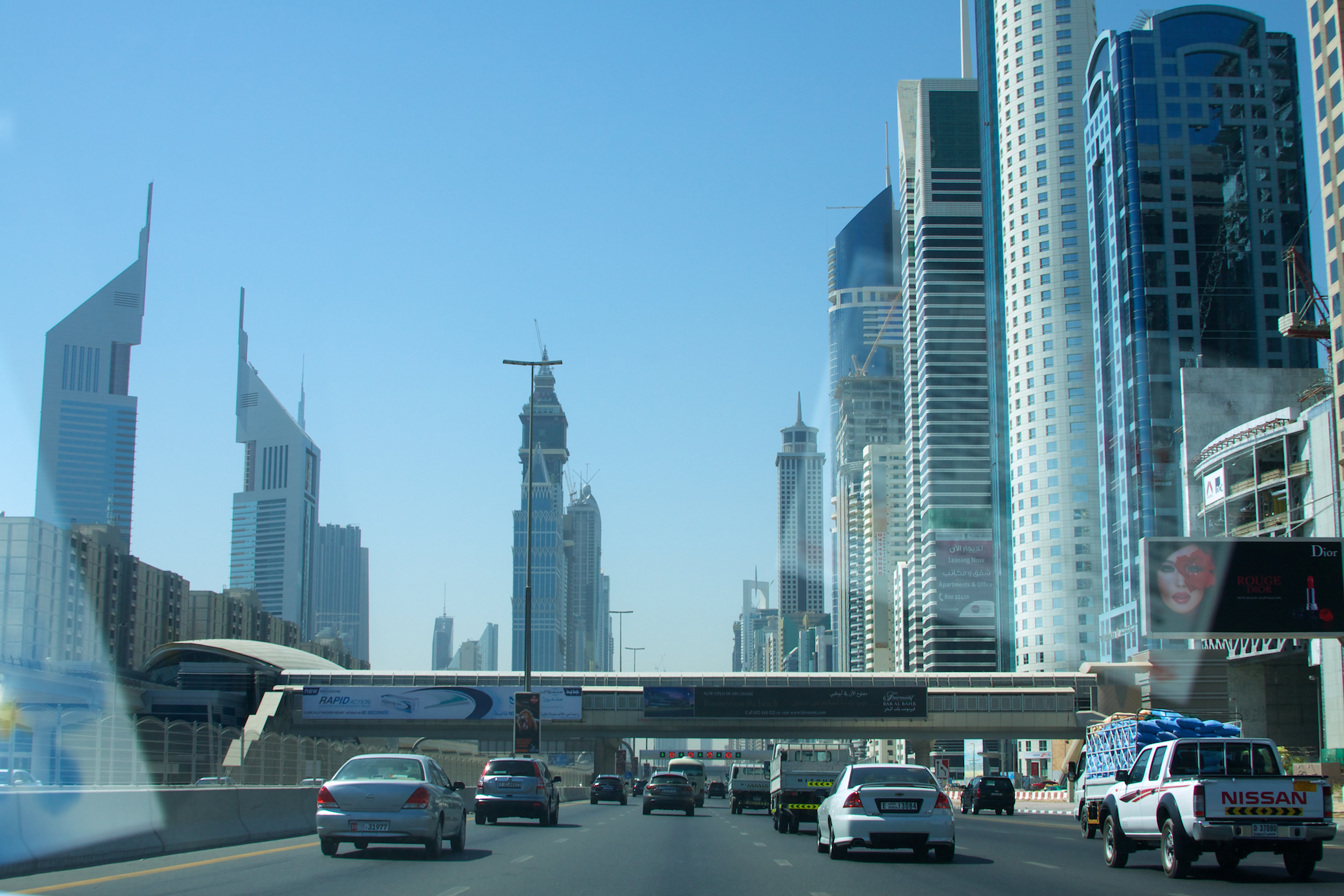 Central Dubai's towers look like the city of the future, but it was weirdly only one street wide. Beyond this row of sharp and unique towers was literally desert or low suburbs.